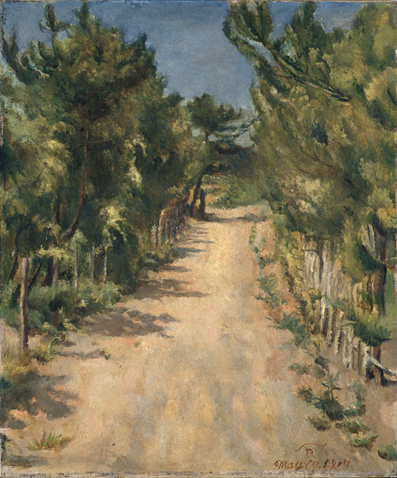 Lane in Early Summer, by Kishida Ryusei, Shimonoseki City Museum of Art, Shimonoseki, Yamaguchi, Japan